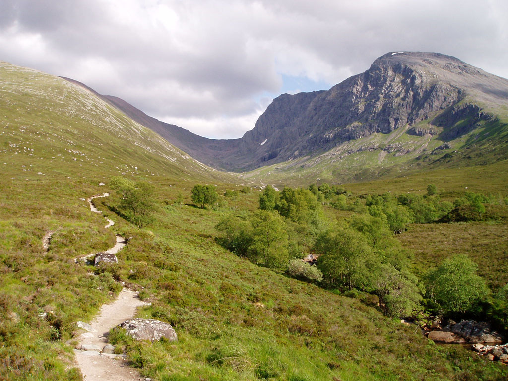 The Allt a' Mhuilinn path on Ben Nevis. Taken by Blisco on 1 July 2006.